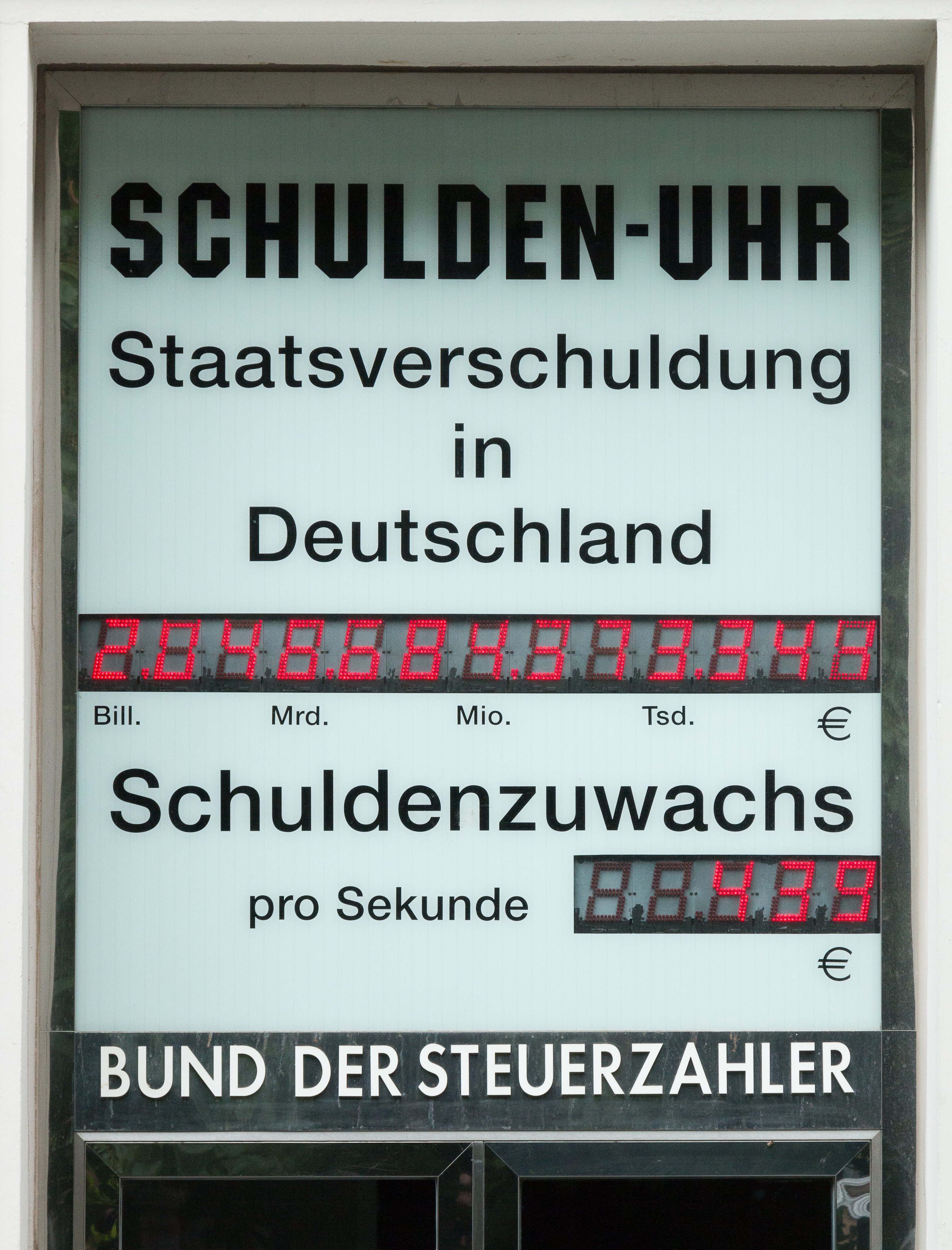 The National Debt Clock of the German Taxpayers Federation, Adolfsallee 30, Wiesbaden